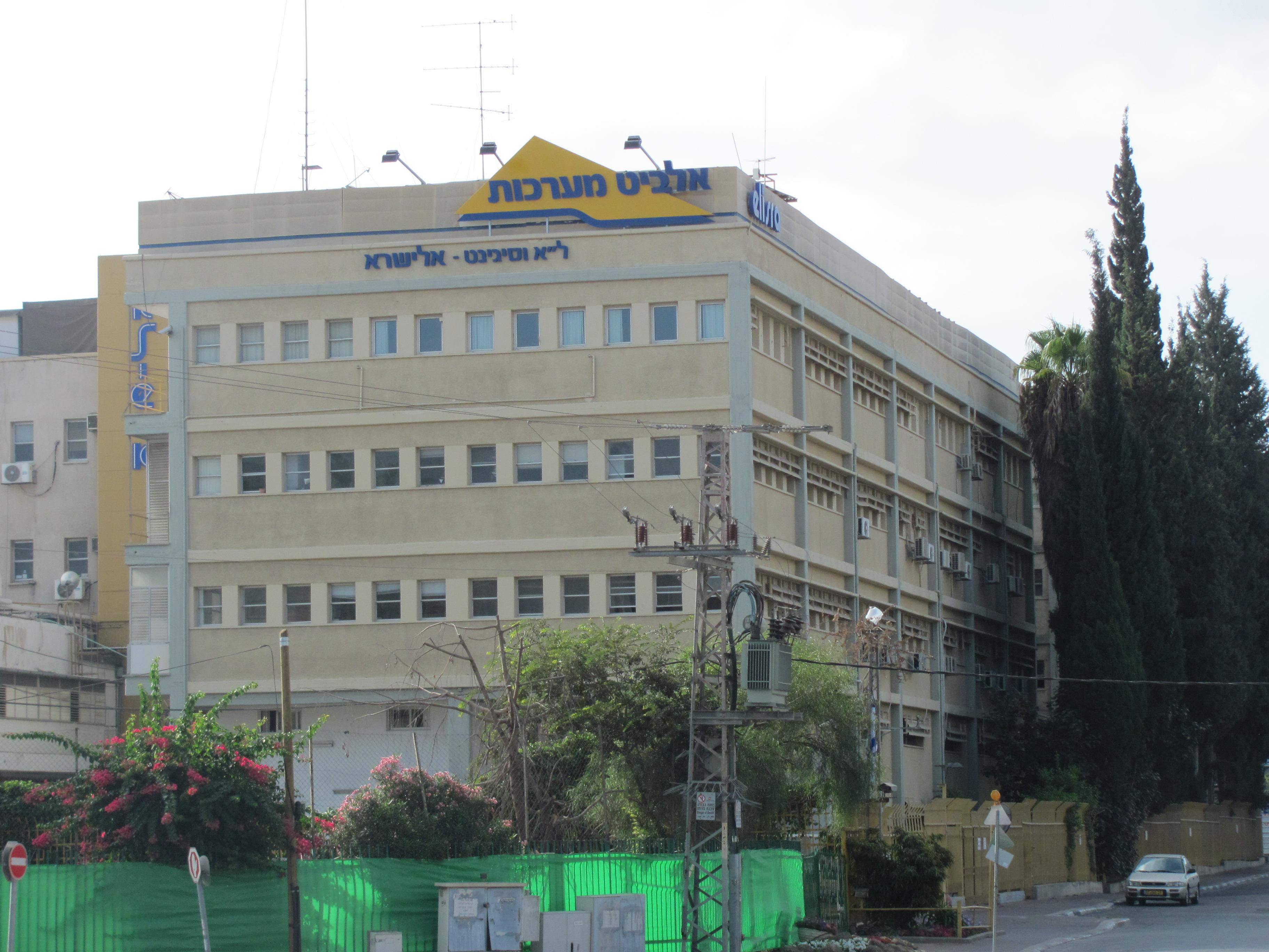 Elisra (a sub-division of Elbit Systems) building in Bney Brak.